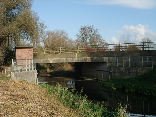 New Bridge at Kate's Bridge Carrying the A15 over the River Glen. The brick building and weir are a gauging station operated by the Environment Agency